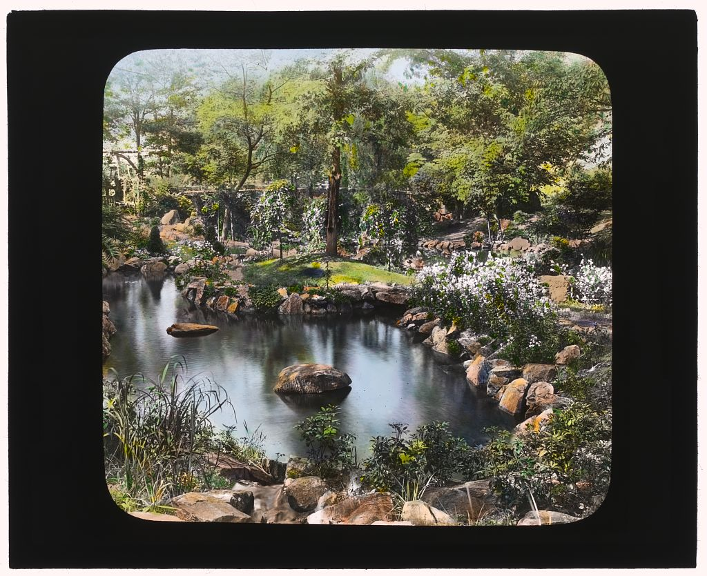 Johnston, Frances Benjamin,, 1864-1952,, photographer. [George Fisher Baker house, Tuxedo Park, New York. Rockery pool] [ca. 1913] 1 photograph : glass lantern slide, hand-colored ; 3.25 x 4 in. Notes: Site History. House Architecture: James Brown Lord, 1887 for Pierre Lorillard, acquired by George Fisher Baker in 1895. Landscape: Clarence Fowler, circa 1912. Today: House but not garden extant. On slide (handwritten): "B" and "Baker, Geo. F, Tuxedo." Also, red hollow circle. Photographed when Frances Benjamin Johnston and Mattie Edwards Hewitt worked together. Title, date, and subject information provided by Sam Watters, 2011. Forms part of: Garden and historic house lecture series in the Frances Benjamin Johnston Collection (Library of Congress). Published in Gardens for a Beautiful America / Sam Watters. New York: Acanthus Press, 2012. Plate 86. Subjects: Gardens--New York (State)--Tuxedo Park--1910-1920. Lakes & ponds--New York (State)--Tuxedo Park--1910-1920. Rocks--New York (State)--Tuxedo Park--1910-1920. Format: Lantern slides--Hand-colored--1910-1920. Repository: Library of Congress, Prints and Photographs Division, Washington, D.C. 20540 USA, Higher resolution image is available (Persistent URL): Call Number: LC-J717-X100- 43